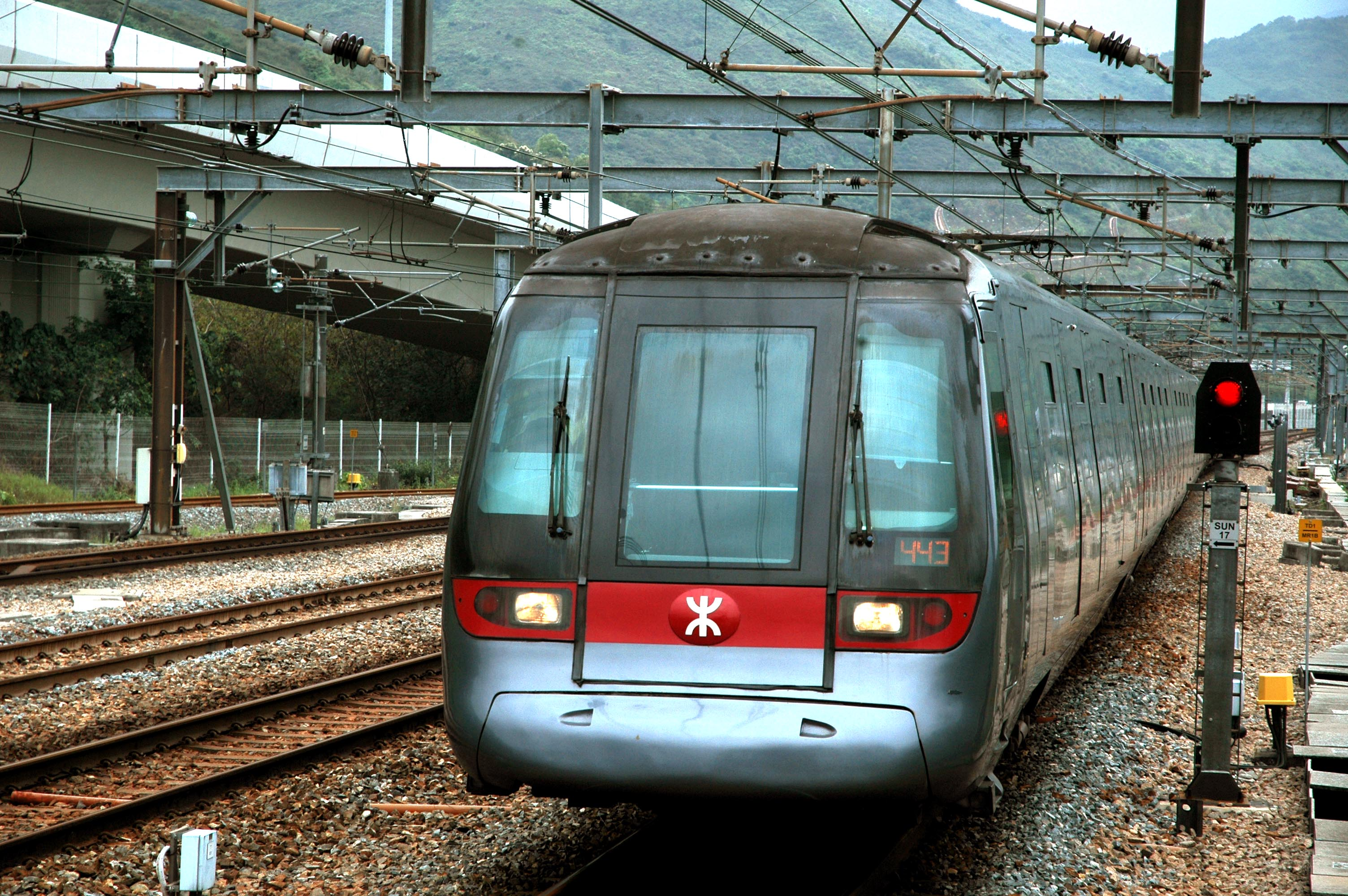 Tung Chung Line Adtranz-CAF EMU (A-Train) arriving at Sunny Bay Station.中文（香港）: 東涌綫Adtranz-CAF電動列車抵達欣澳站